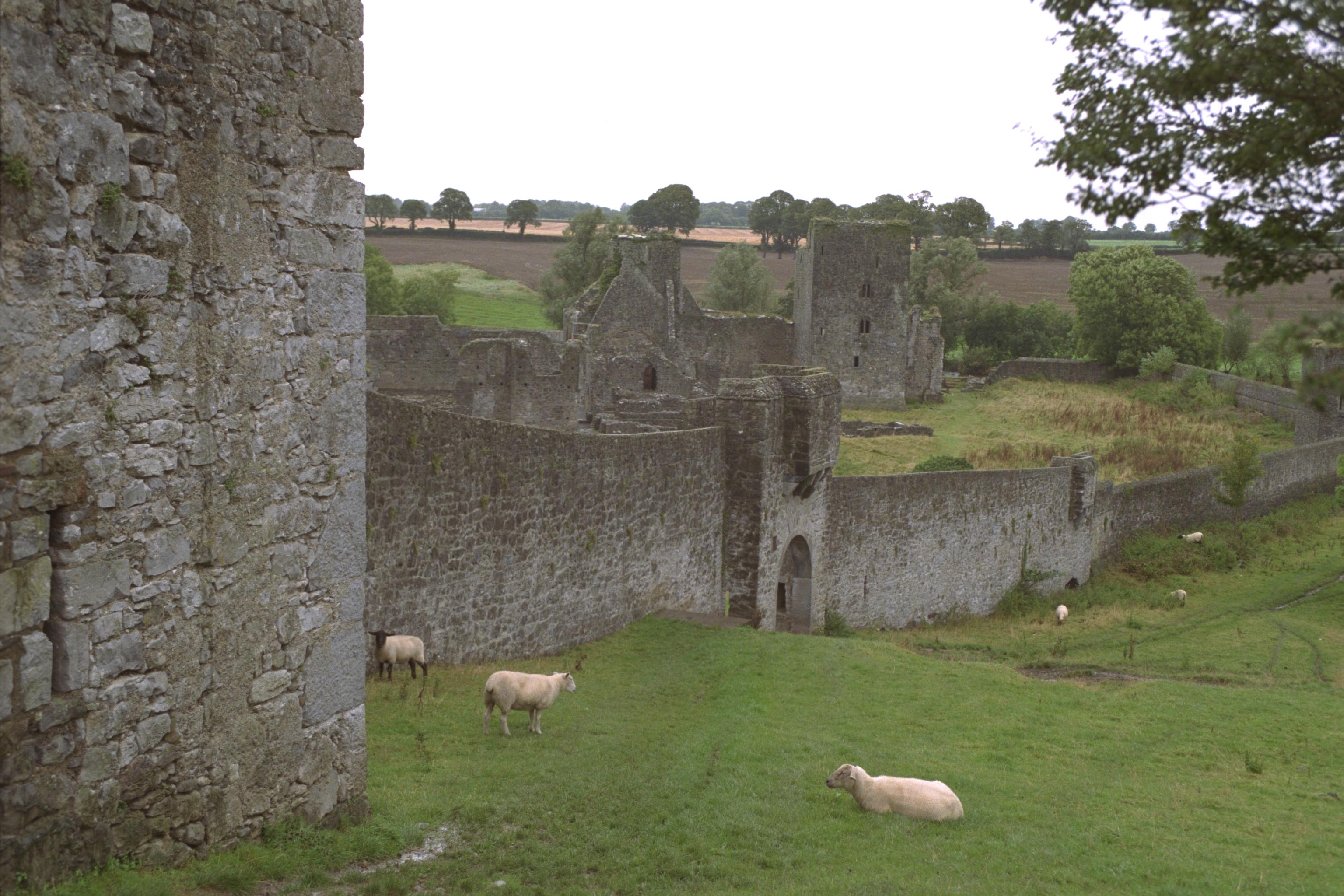 Kells Priory, County Kilkenny, Ireland View from the East